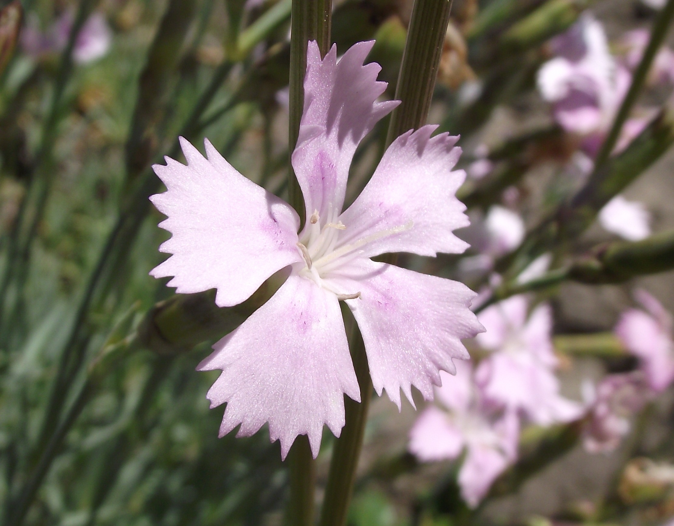 Dianthus pubescens in the UC Botanical Garden, Berkeley, California, USA. Identified by sign.